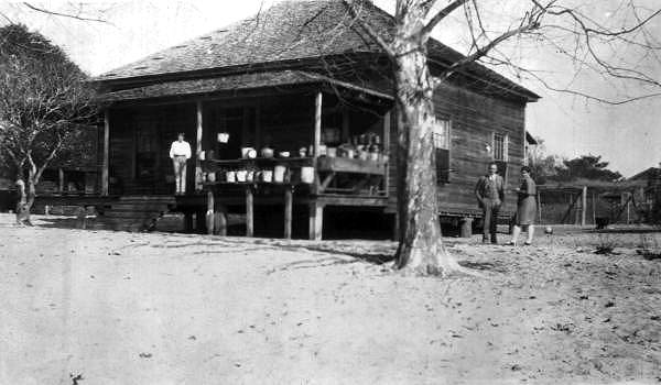 Florida Memory Project; call number=n034128 [1] Title: [Country store : Fort Braden Region] [picture] Publication info: 192- Physical descrip: 1 photonegative : b&w ; 4 x 5 in. Series Title: (General collection) Subject term: General stores--Florida--Fort Braden Region. Geographic term: Fort Braden Region (Fla.)--Buildings, structures, etc.